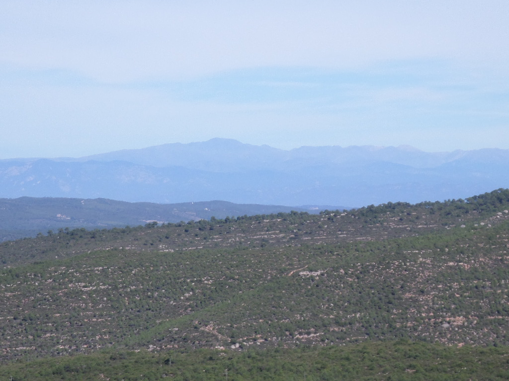 The Serra de Rubió, the Serra de Castelltallat and the Pyrenees